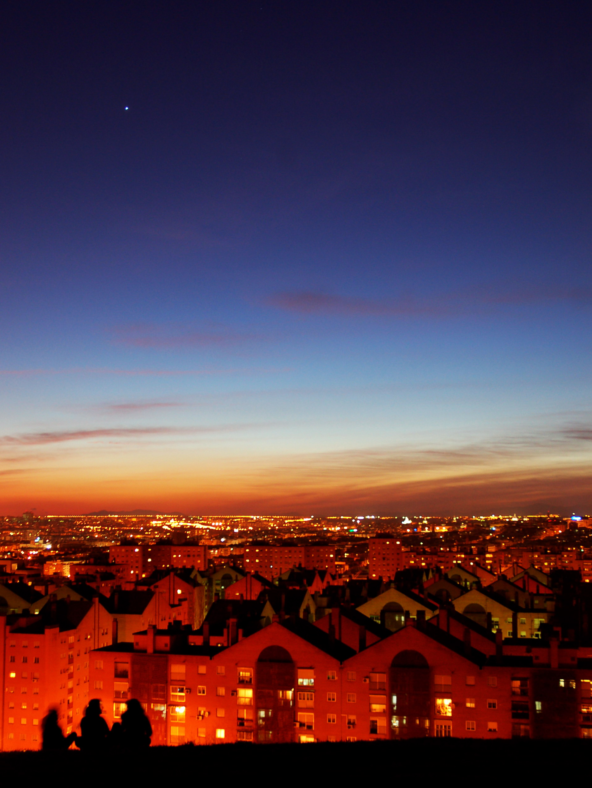 Only one star in the sky of Madrid, Spain.